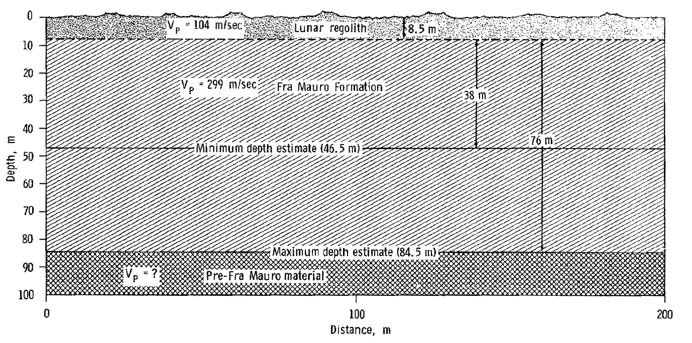 Cross-section through the Apollo 14 landing site, based on seismic refraction data collected by the astronauts Edgar Mitchell and Alan Shepard. From the Apollo 14 Preliminary Science Report.